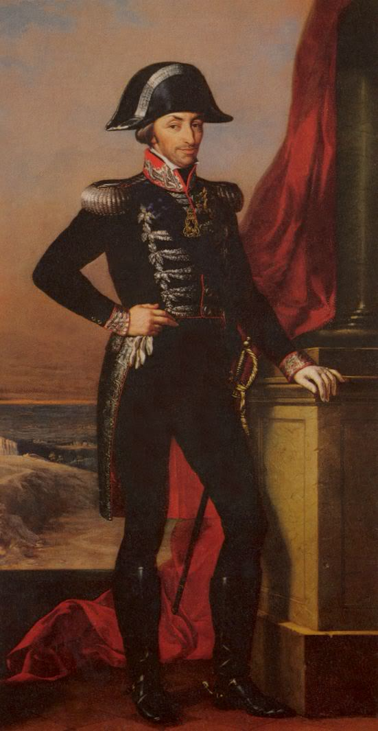 Portrait of Victor Emmanuel I of Sardinia (1759-1824)